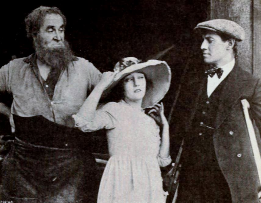 Still from the American film Something to Think About (1920) with Theodore Roberts, Gloria Swanson, and Elliott Dexter, on page 107 of the October 9, 1920 Exhibitors Herald.